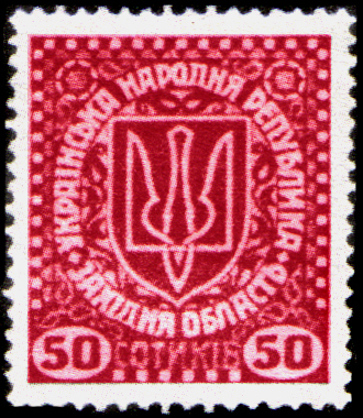 Stamp of the second release of Western area UPR, 1919